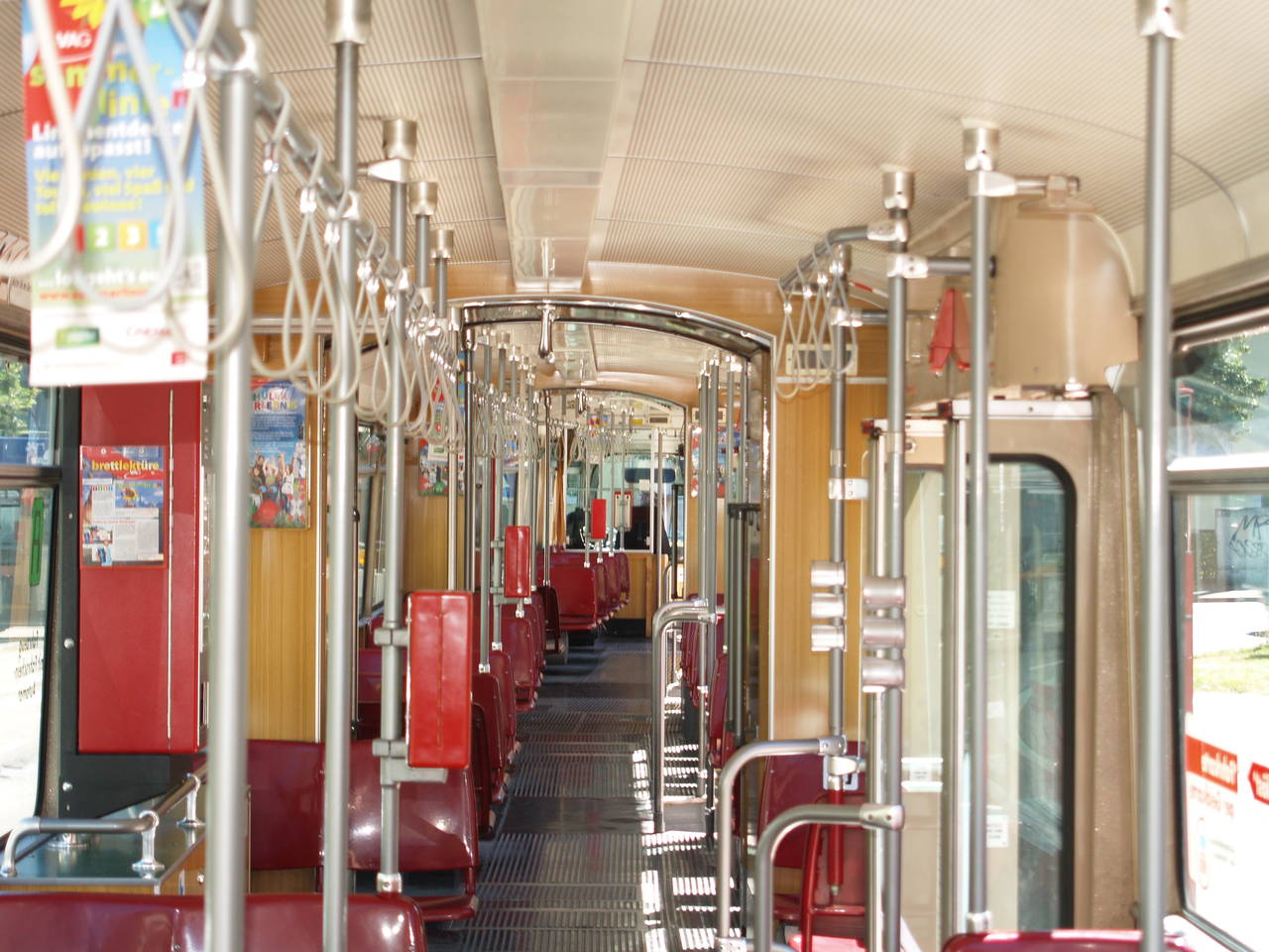 In this picture you can see the interior of a GT8K.